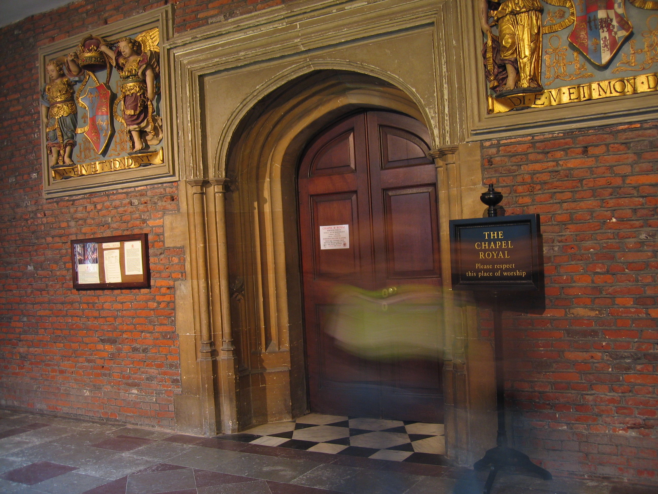 Entrance to the Chapel Royal at Hampton Court Palace A ghostly sighting at Hampton Court Palace's Chapel Royal? Well, no... I think I set the exposure a bit too long, and a fellow visitor wandered in front of the lens...